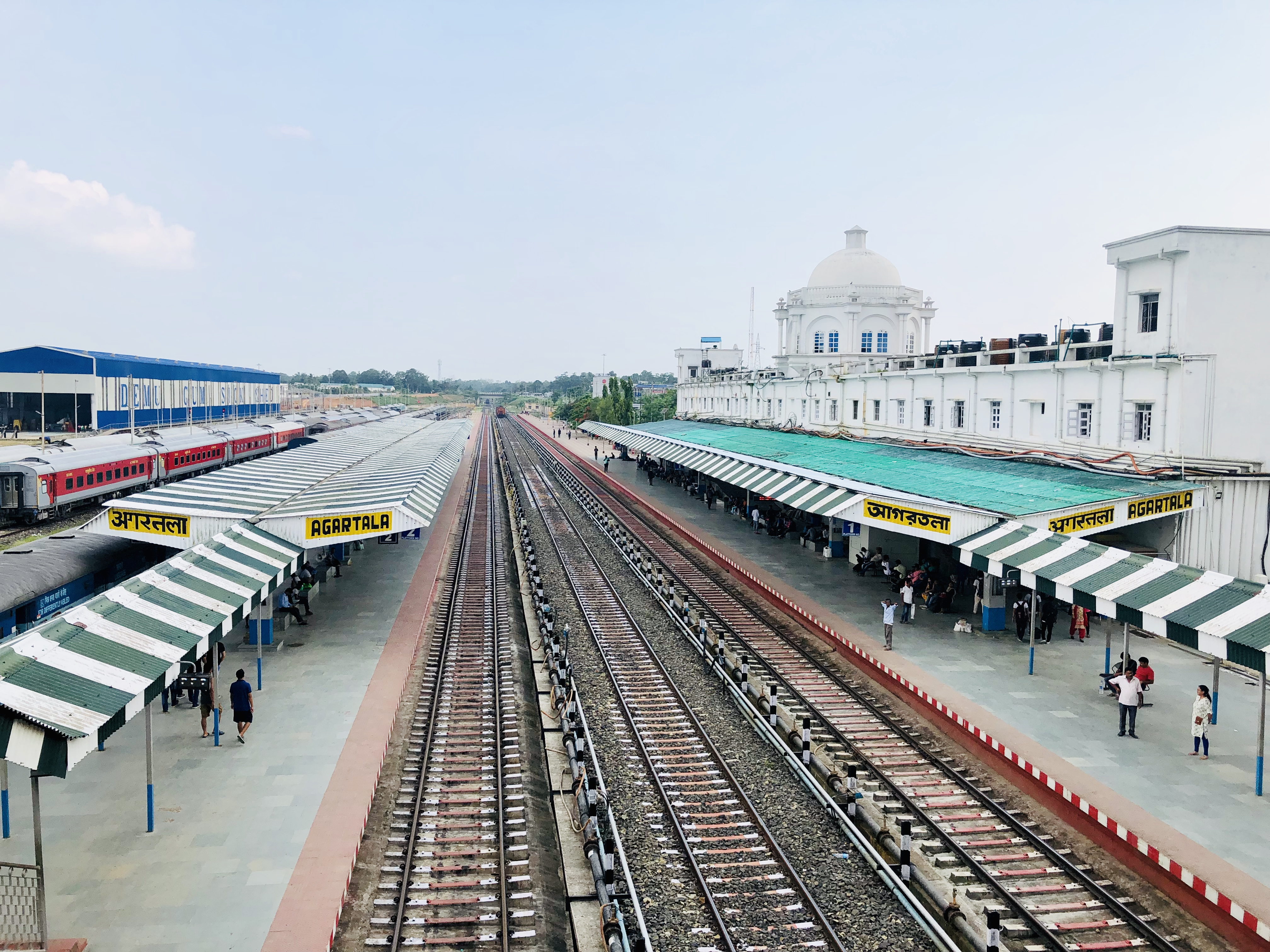 Five to six tracks in total